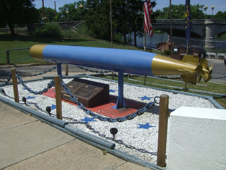 The memorial to the USS Grayback on the grounds of the Heslar Naval Armory in Indianapolis. Photograph by ET2 Evan R. Shearin, USNR.